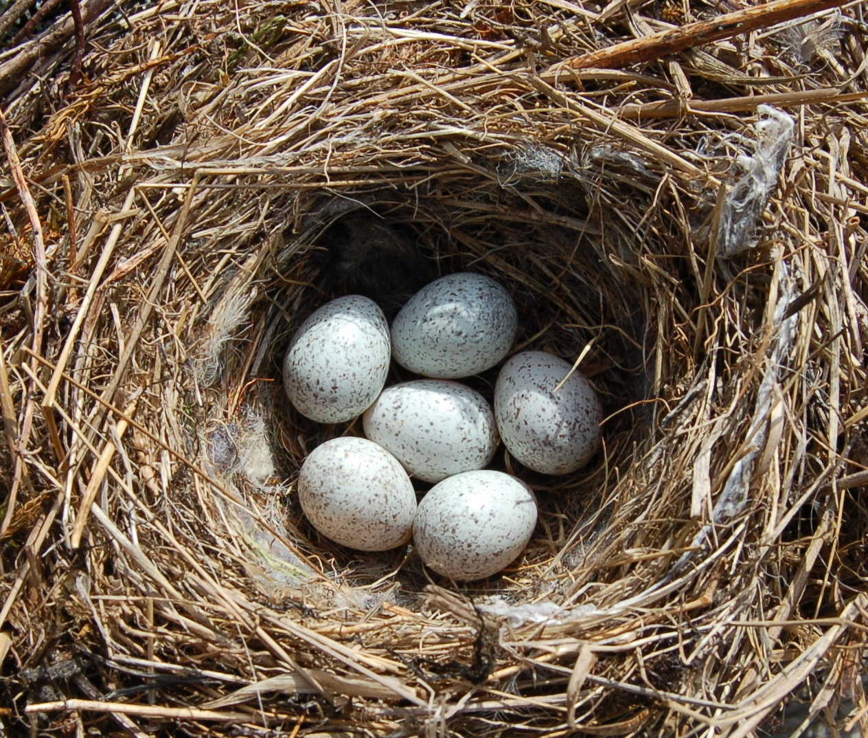 Egg White Wagtail (Motacilla alba) Blefjell, Norway - 800 m above sea level - June 2